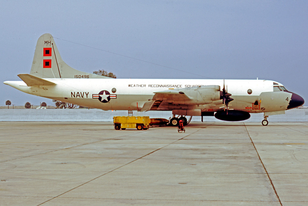 Lockheed WP-3A 150496 MH-4 of Weather Reconnaissance Squadron VW-4 at NAS Jacksonville Florida in 1974.